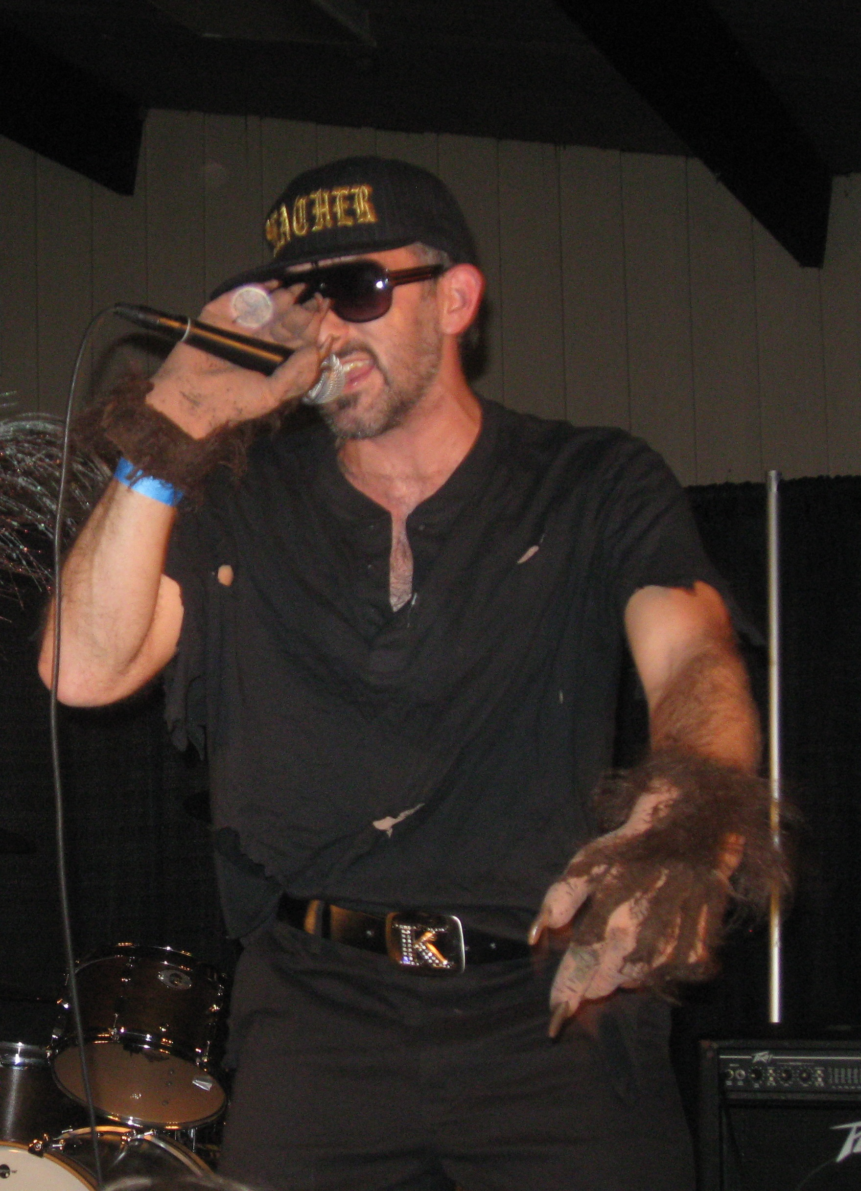 Wizard Rock performer